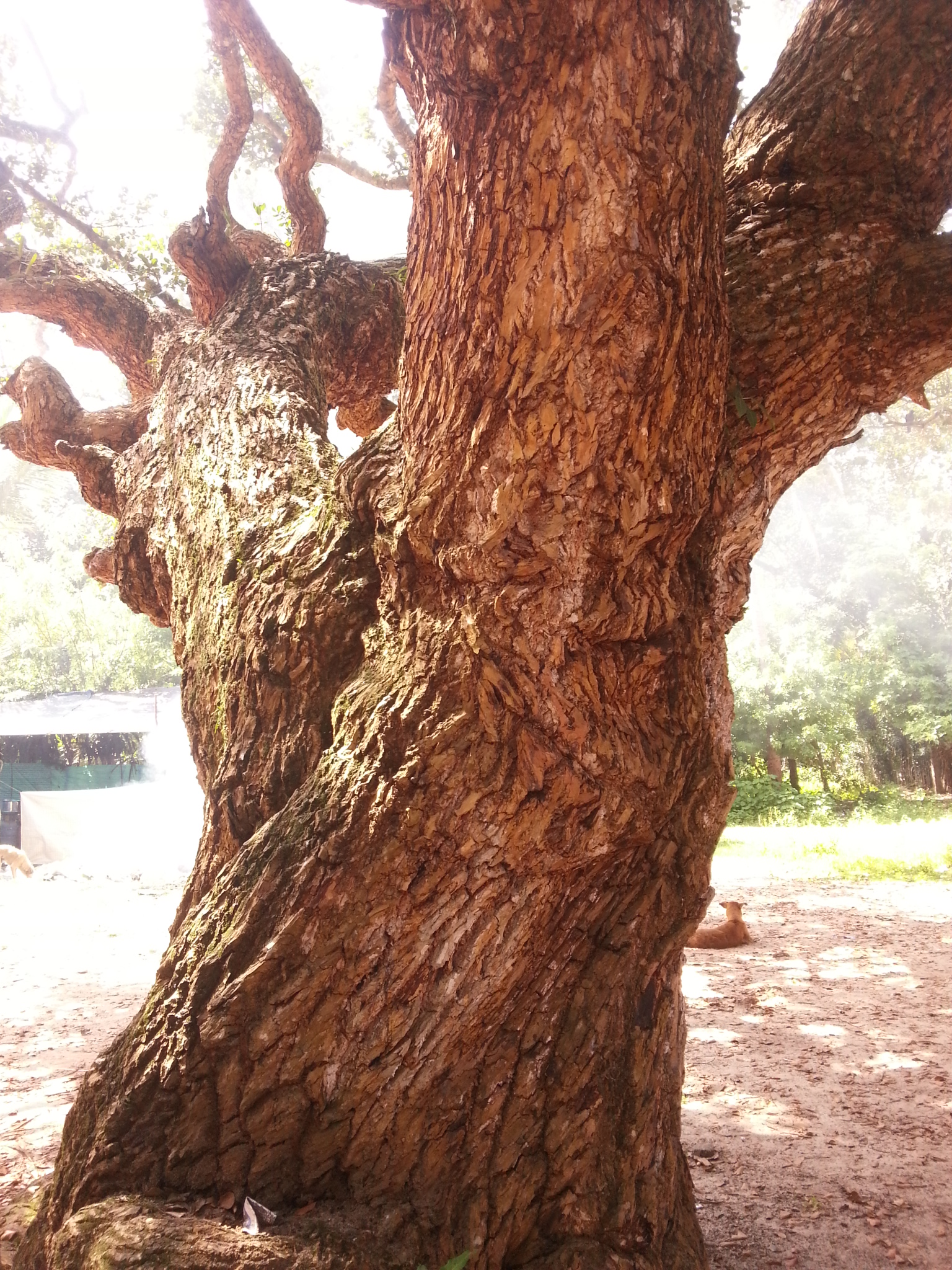 Calophyllum inophyllum